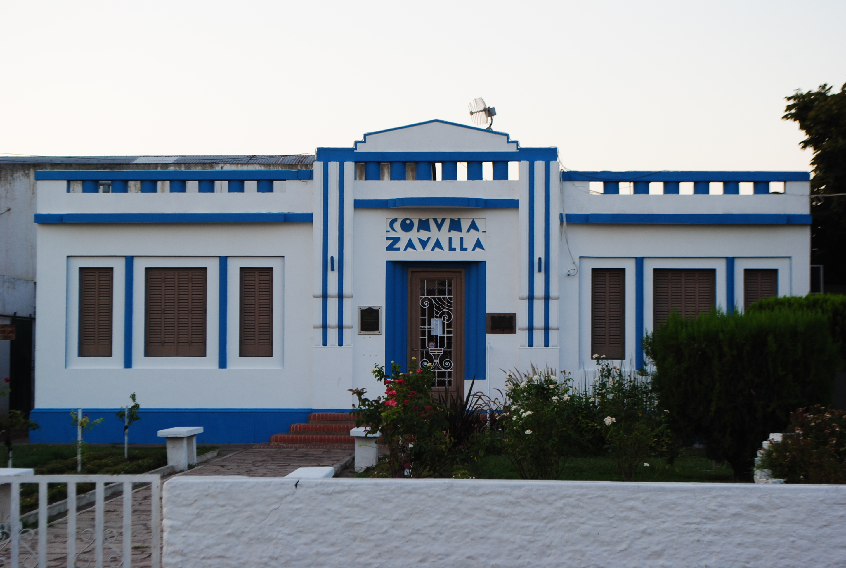 Main Building Zavalla´s Comunne, Santa Fe province, Argentina